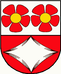 Blazon of Bettwiesen, Canton of Thurgau, SwitzerlandEsperanto: Blazono de Bettwiesen, Kantono Turgovio, Svislando